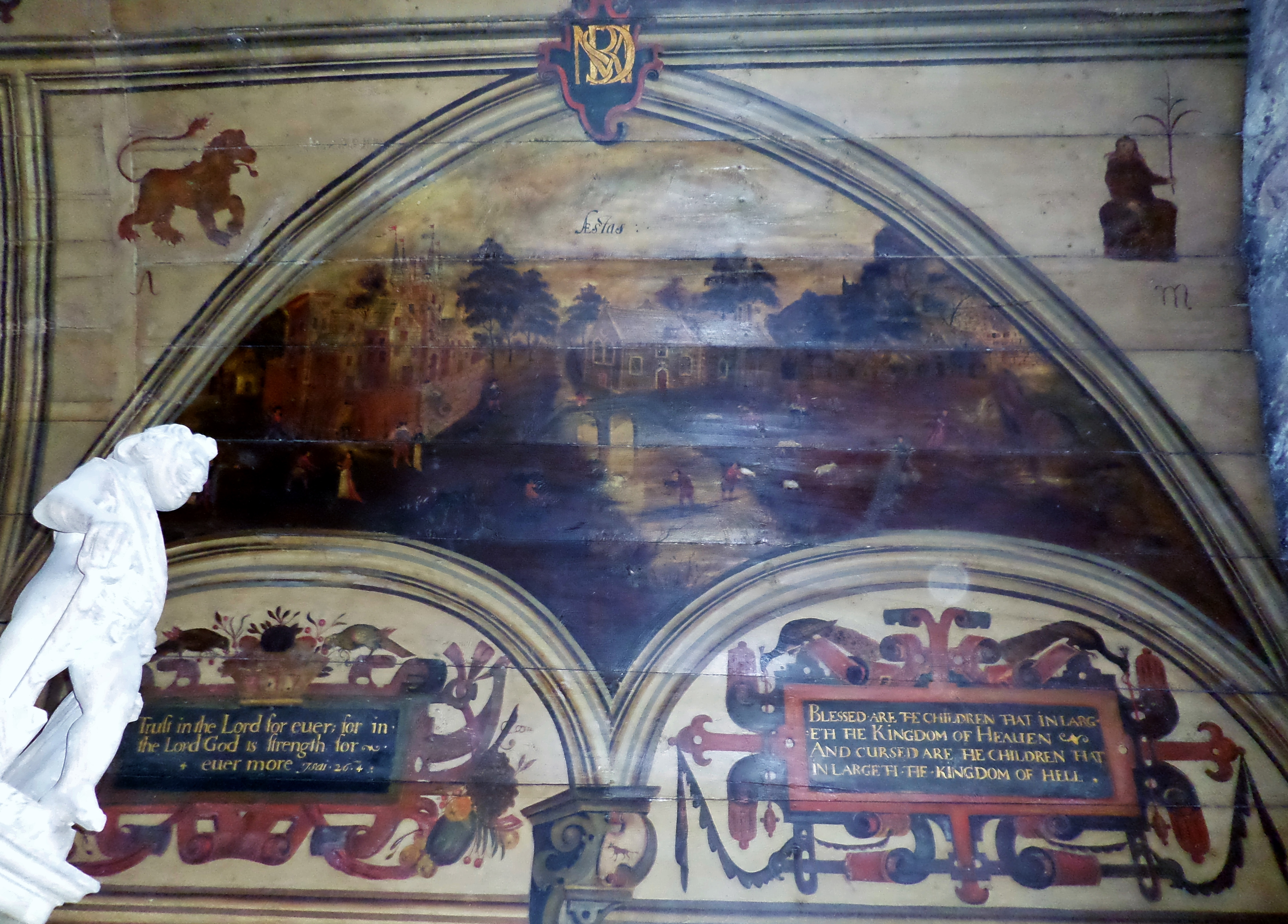 Skelmorlie Aisle ceiling - Section 2 - west facing end, North Ayrshire, Scotland.